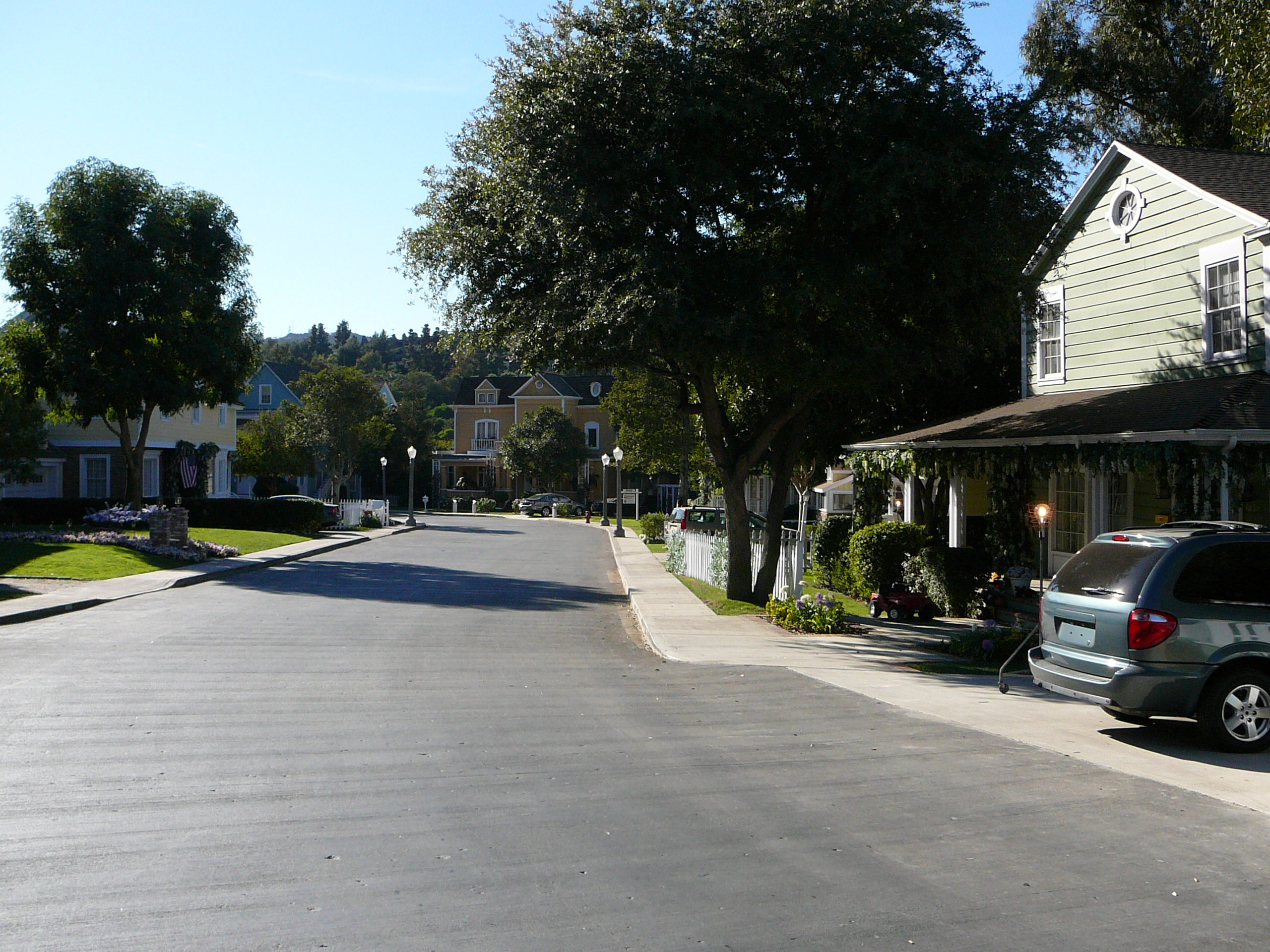 Desperate Housewives had a filming session at this time, but it was all indoors at the time.